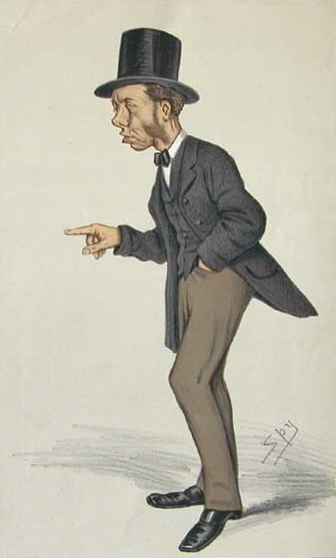 Caricature of Thomas Collins MP. Caption read "Noisy Tom".